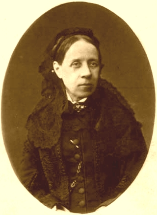 Nadezhda Stasova